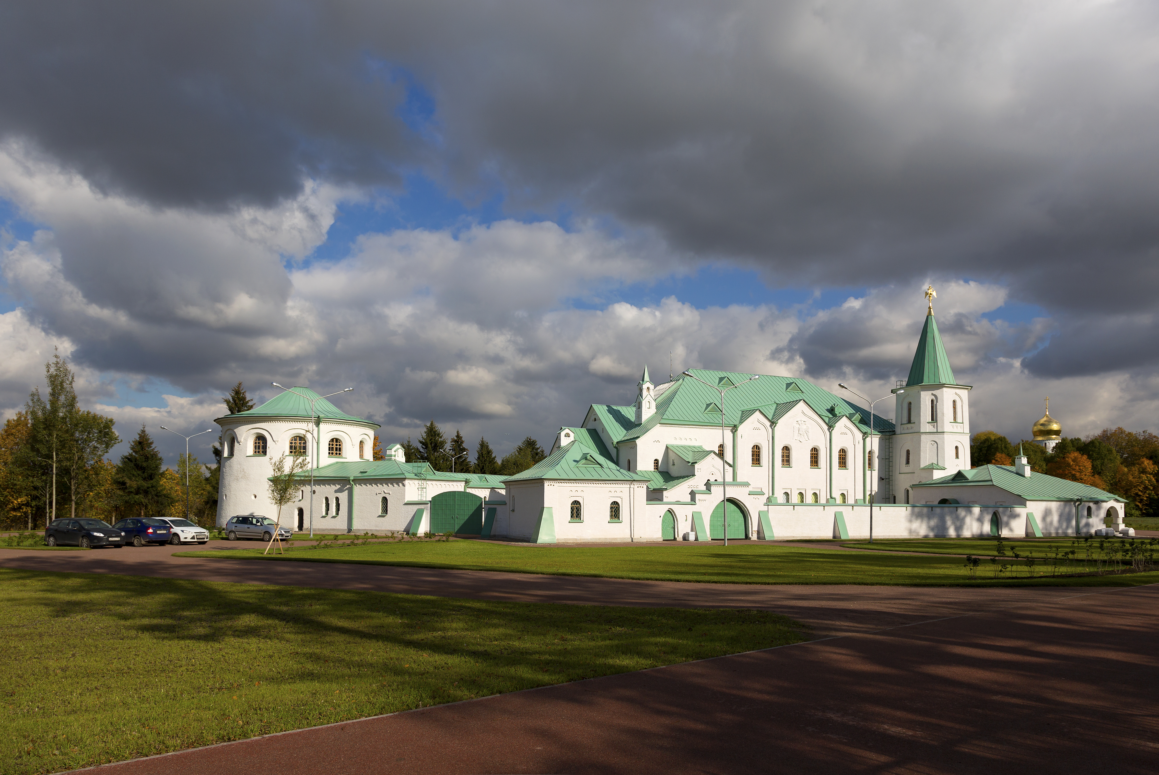 The martial chambers in Tsarskoye Selo